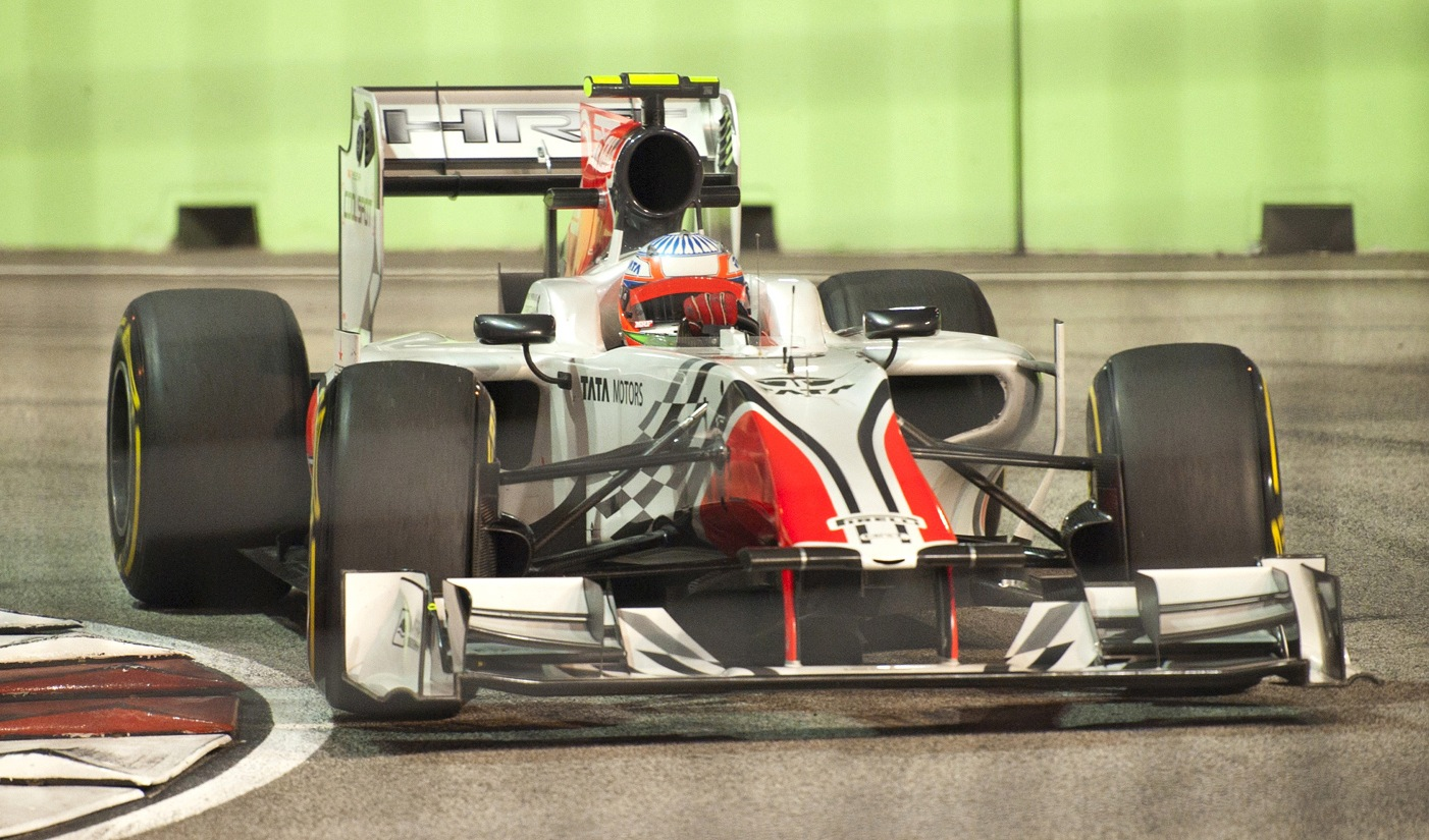 Karthikeyan during Friday 1st Practice